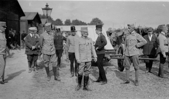 Field Marshal Friedrich Archduke of Austria, Duke of Teschen (1856-1936), supreme commander of Austria-Hungarian Armed Forces in WW1, visiting the Przemyśl fortress (today in South-Eastern Poland) after recapture in June 1915